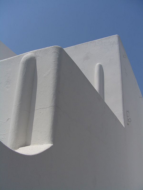 Building in Stromboli